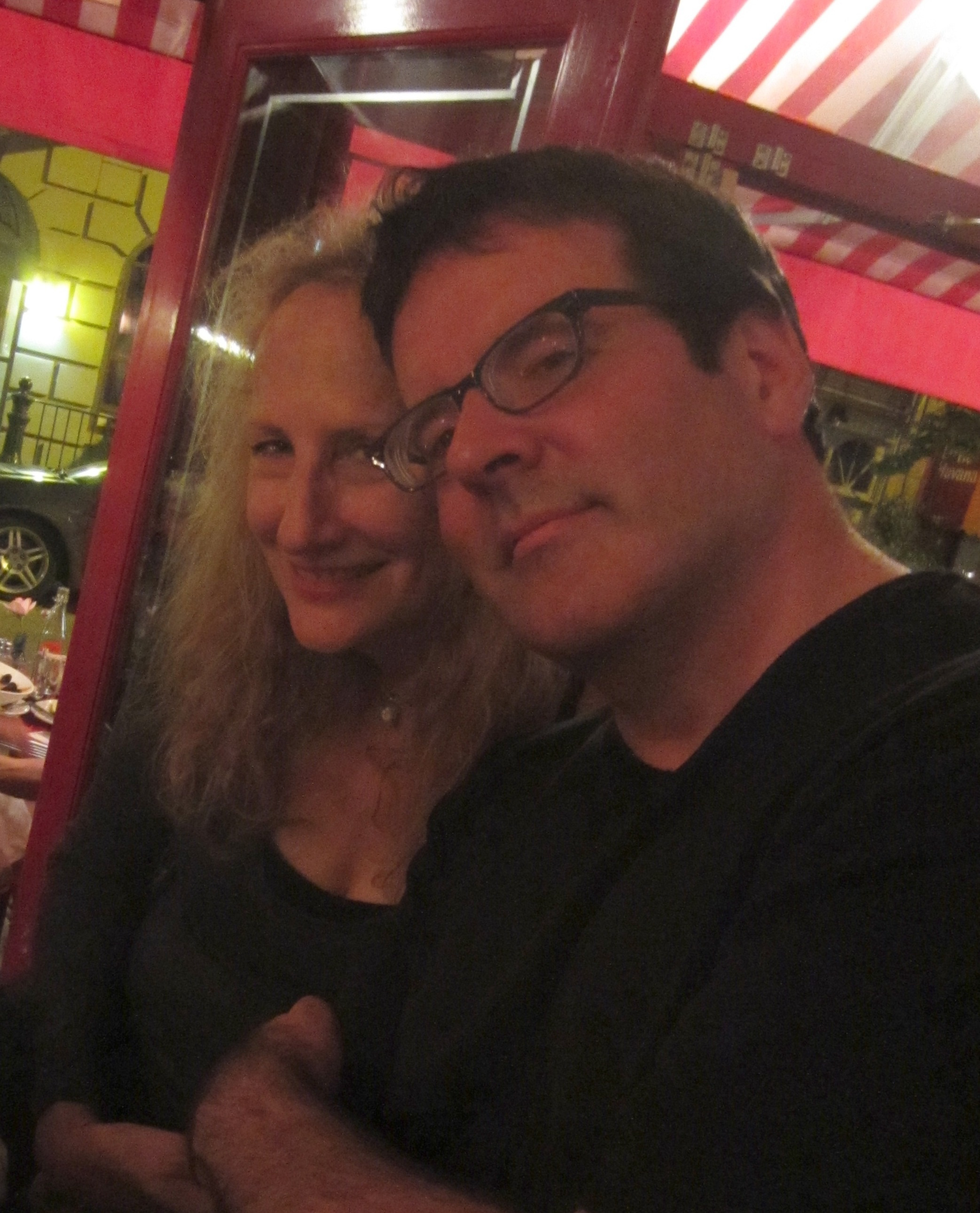 Dinner and drinks with biographer Brian Kellow at Cornelia Street.